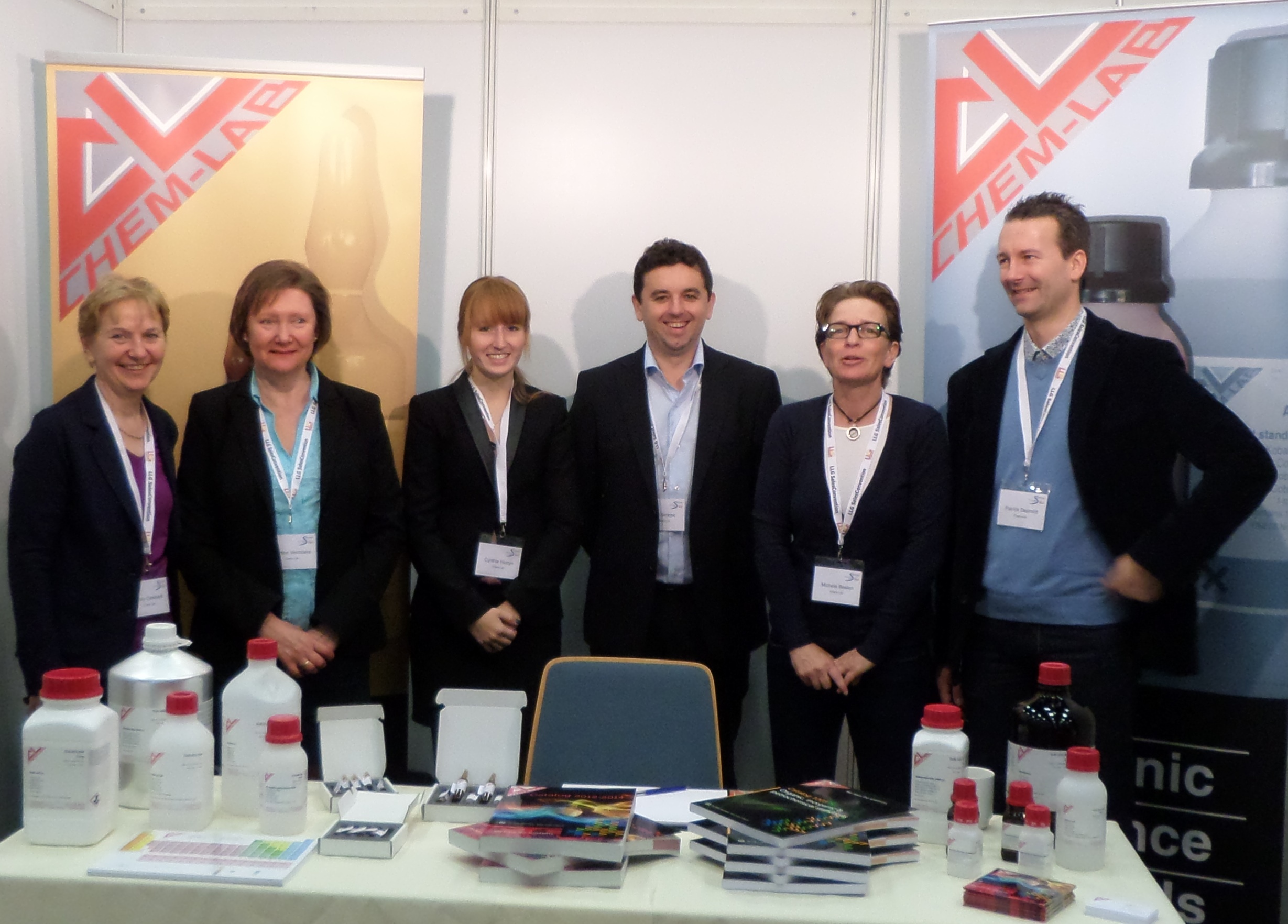 We have the solutions